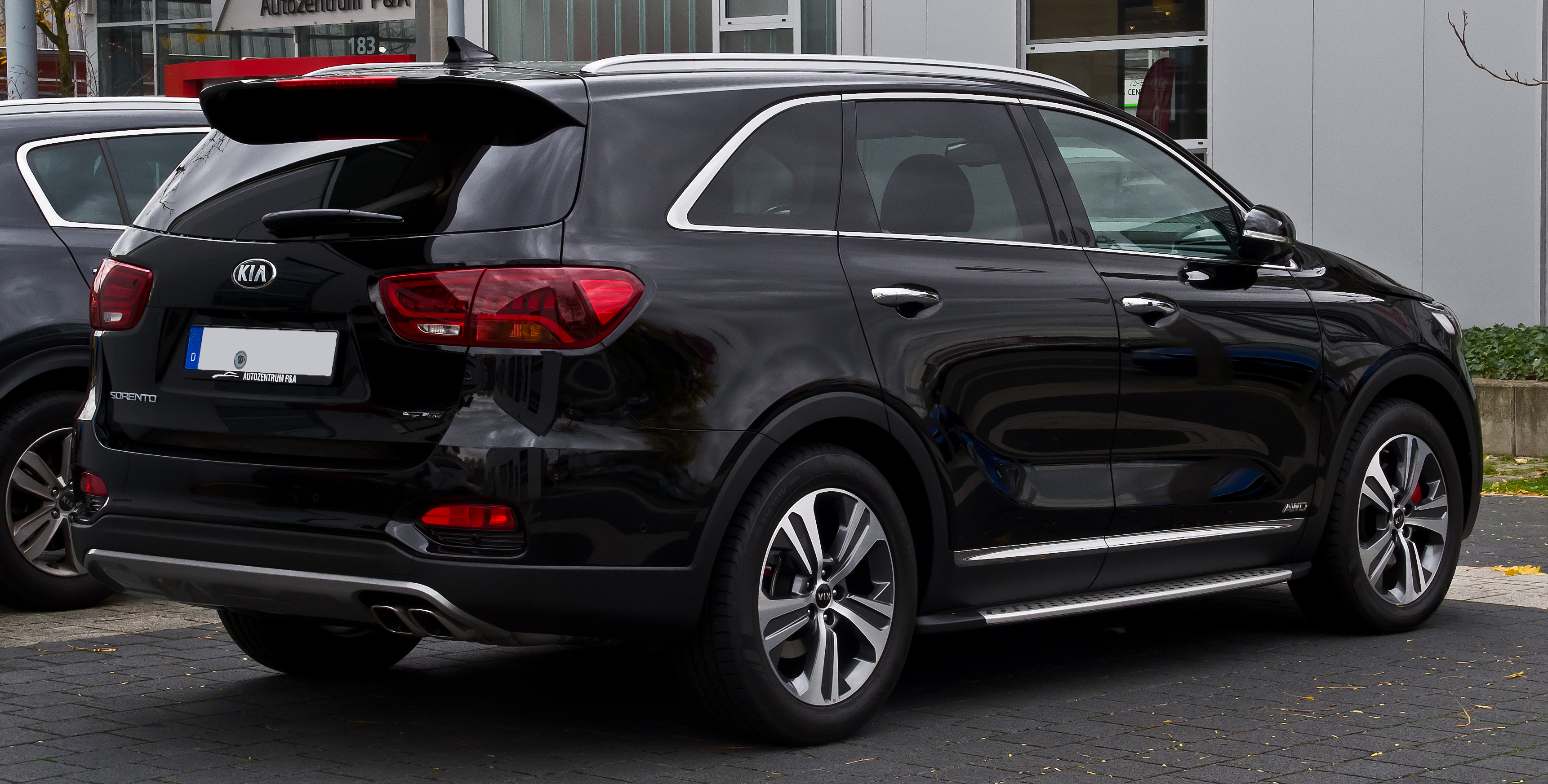 Kia Sorento 2.2 CRDi AWD GT-Line (III, Facelift)